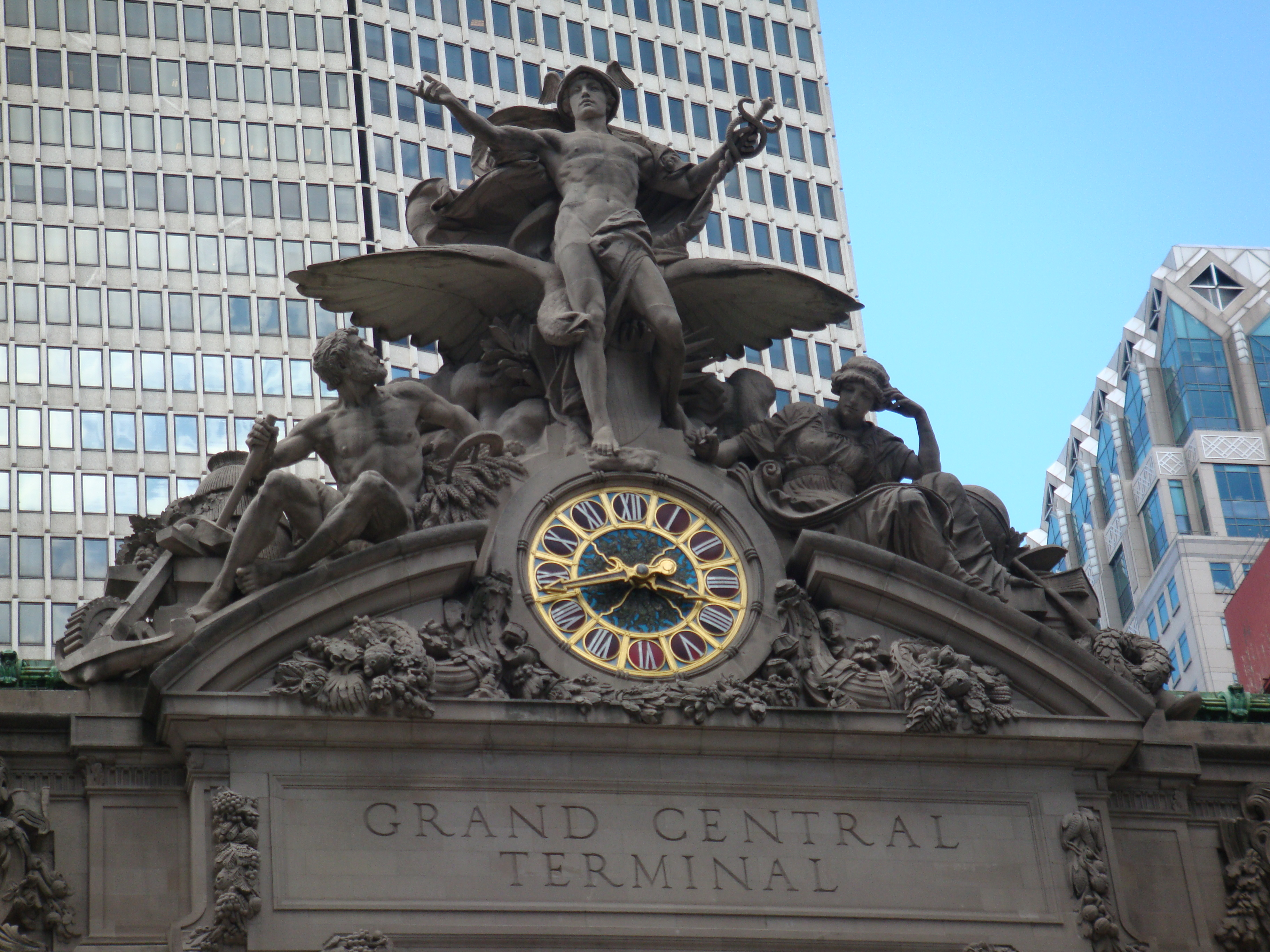 Group of statues and clock on the facade (Grand Central Terminal)